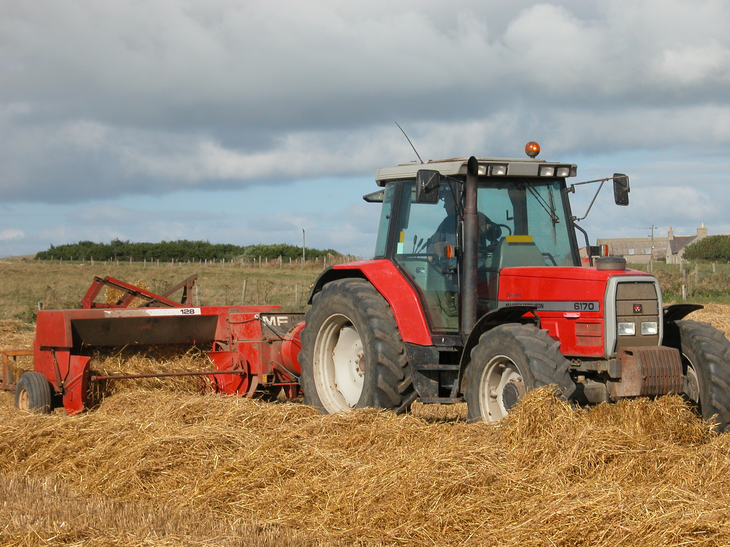 Baling straw with a Massey Ferguson 6170 tractor and a MF 128 square baler somewhere on the Orkney Islands, Scotland.